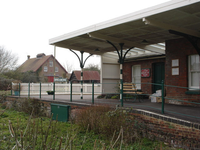 Breamore railway station, Hampshire